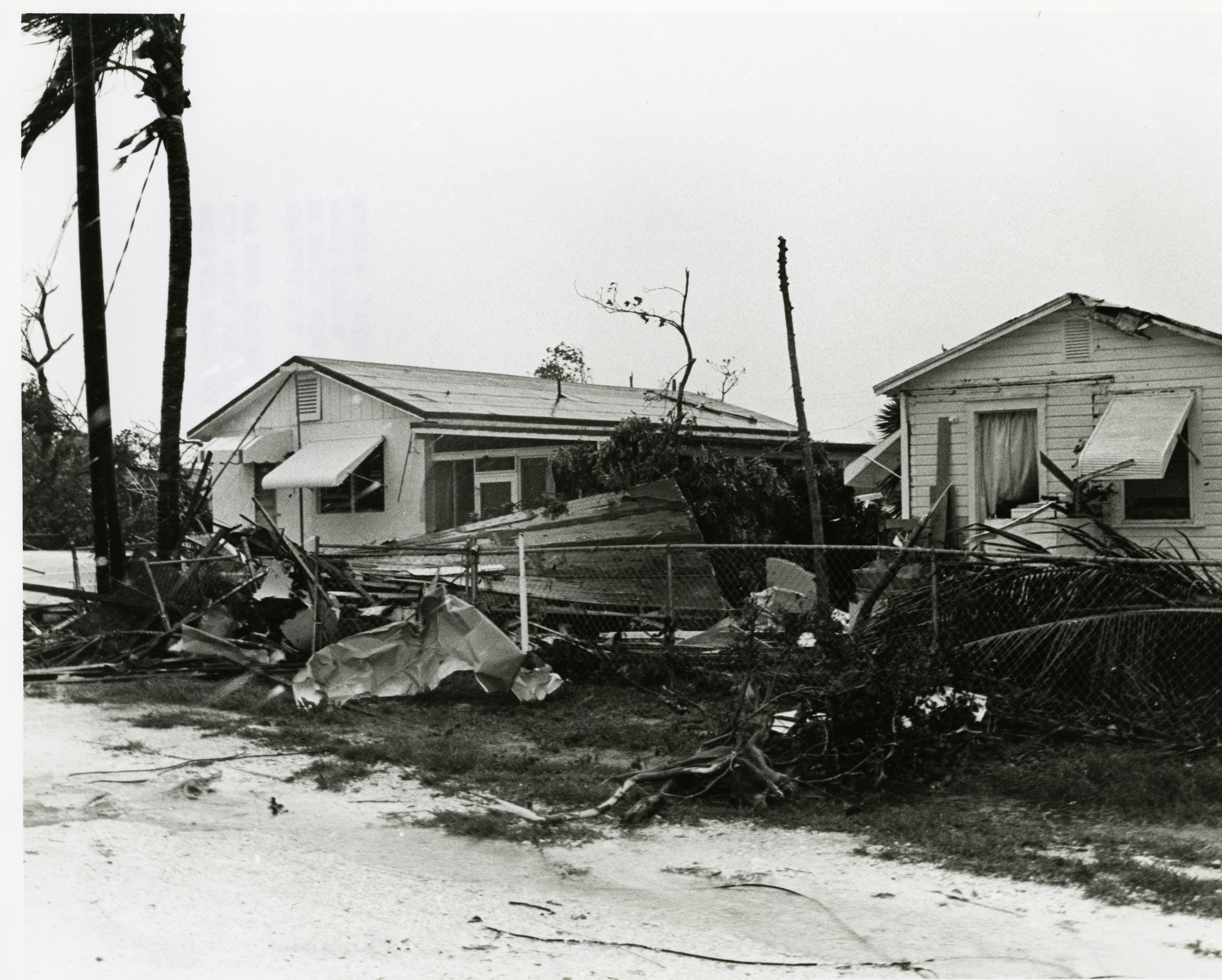 Damage from Hurricane Agnes June 1972. From the Ida Woodward Barron Collection. Effects of Hurricane Agnes in Key West, Florida, June 1972.